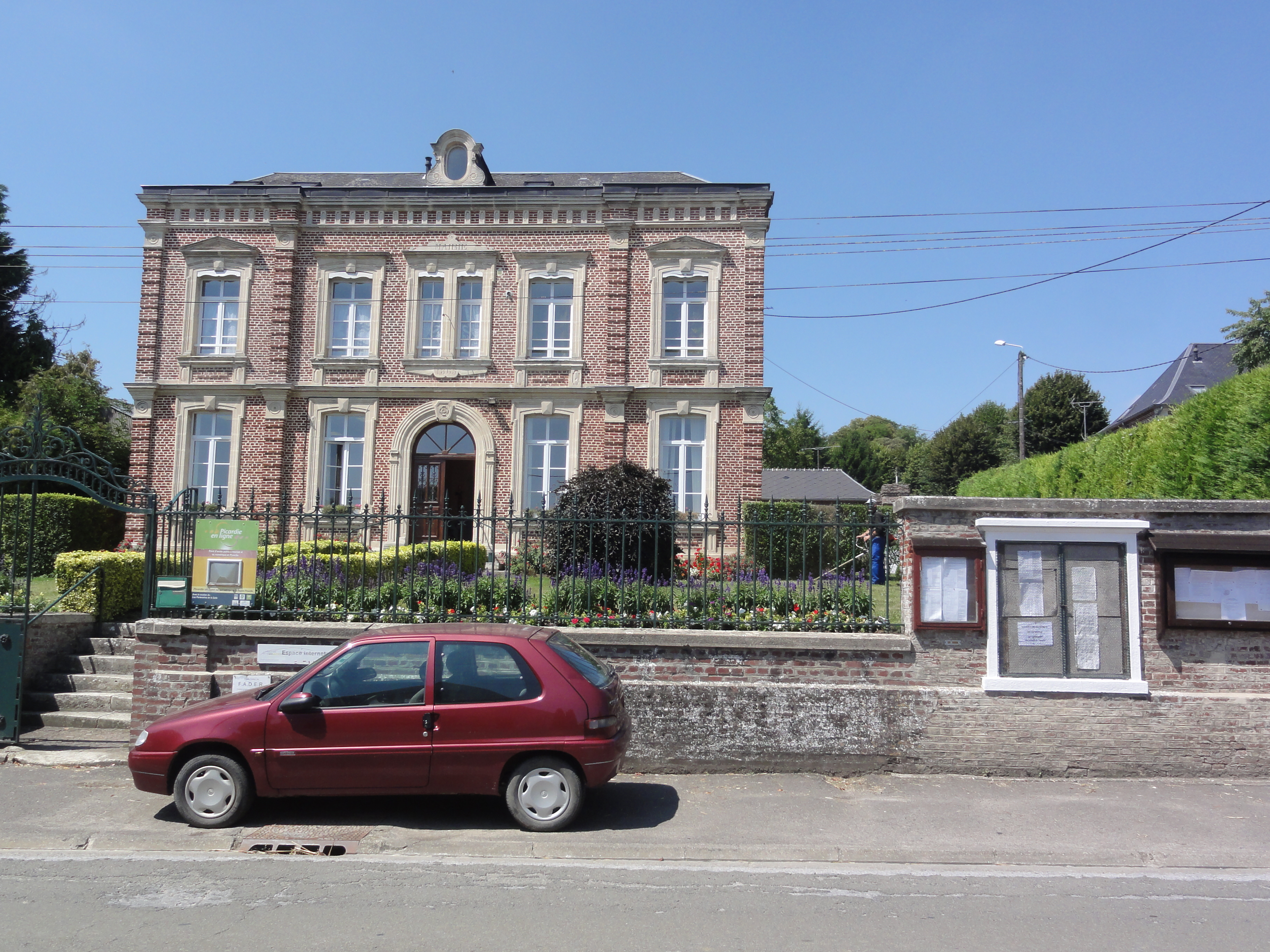 Chevresis-Monceau (Aisne) mairie